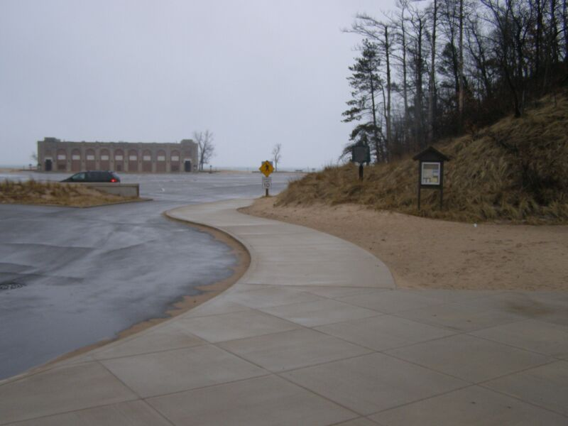 Location of Petit Fort to Lake Michigan (Indiana Dunes State Park, Indiana)